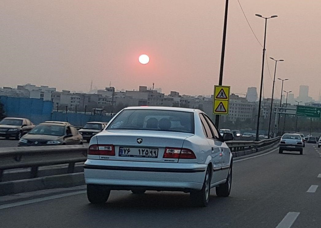 Samand Lx in the road